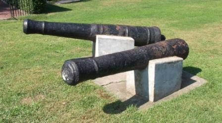 Tarta rGuns Newport Historical Society